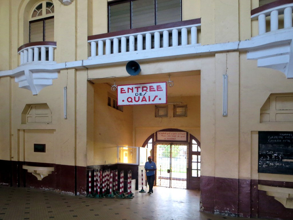 Entree des Quais. Passengers on the Chemin de fer Congo-Océan to/from Brazzaville pass through this gate at the Gare de Pointe-Noire in Pointe-Noire, Republic of Congo.